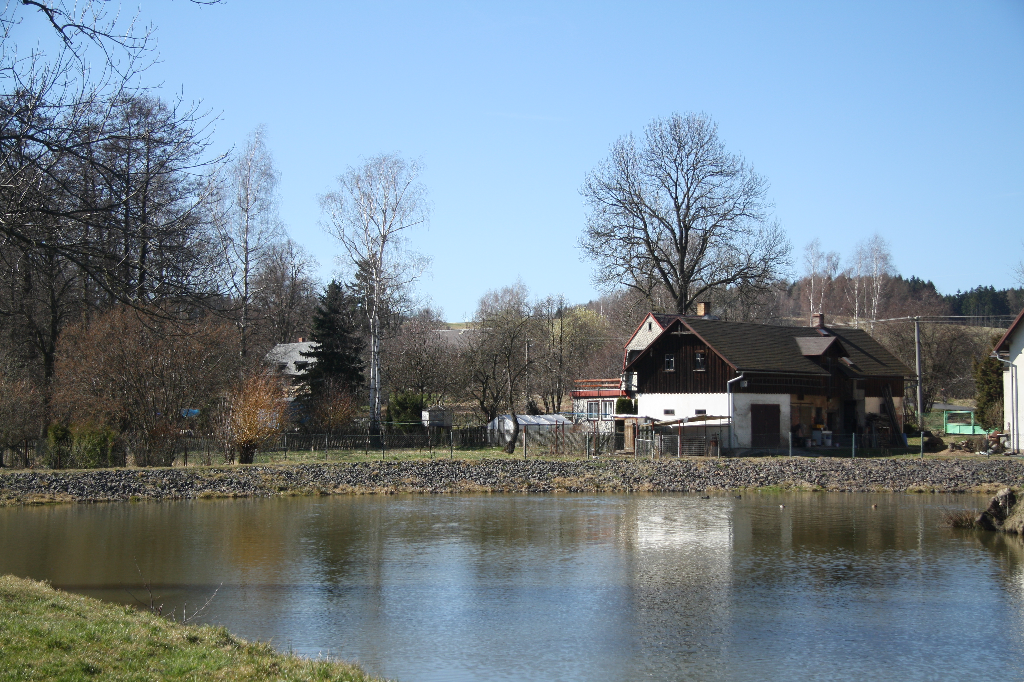 Center of Nový Jiříkov, Jiříkov, Děčín District.